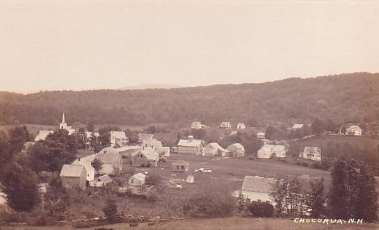 Birdseye View, Chocorua, NH; from a c. 1912 postcard.